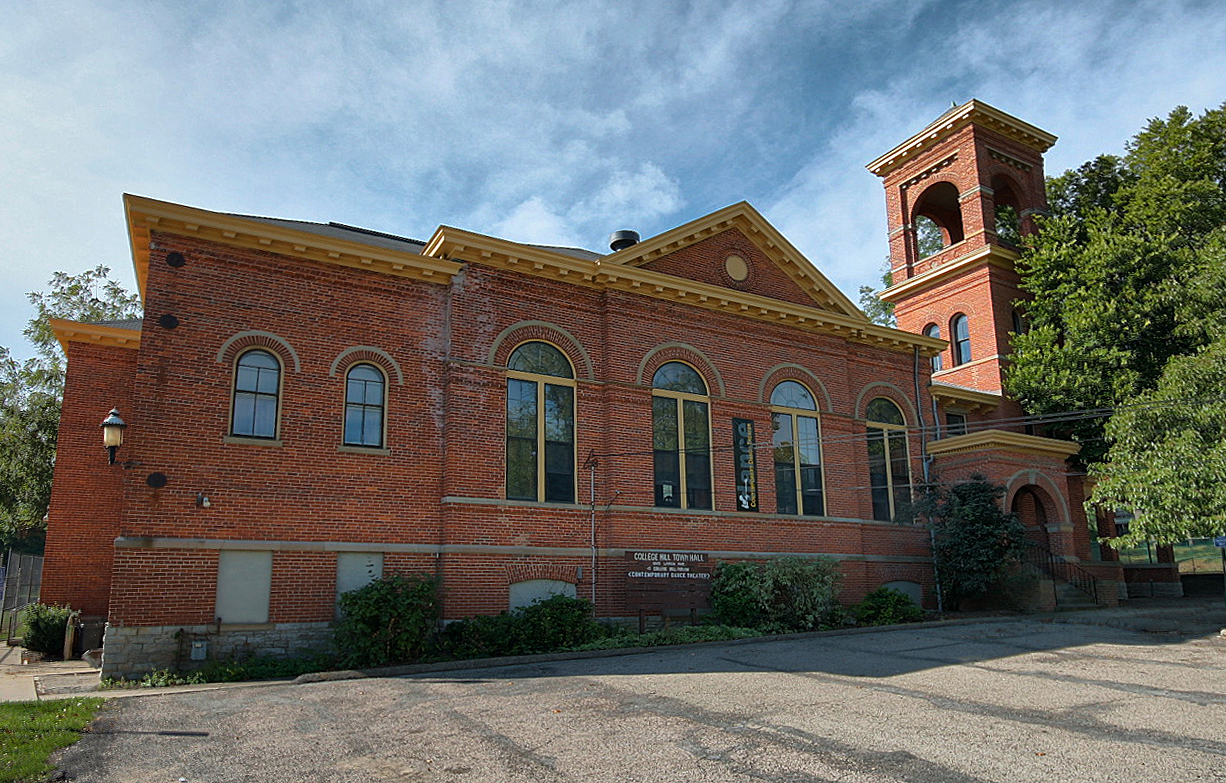 College Hill Town Hall. Photo by Greg Hume